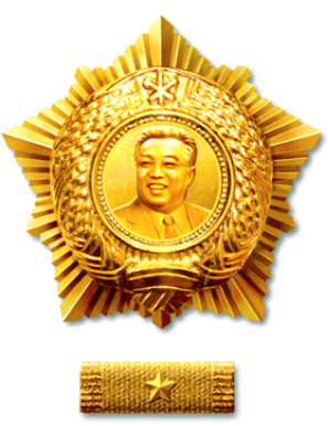 Order of the Kim Il Sung which revised on June 2012.